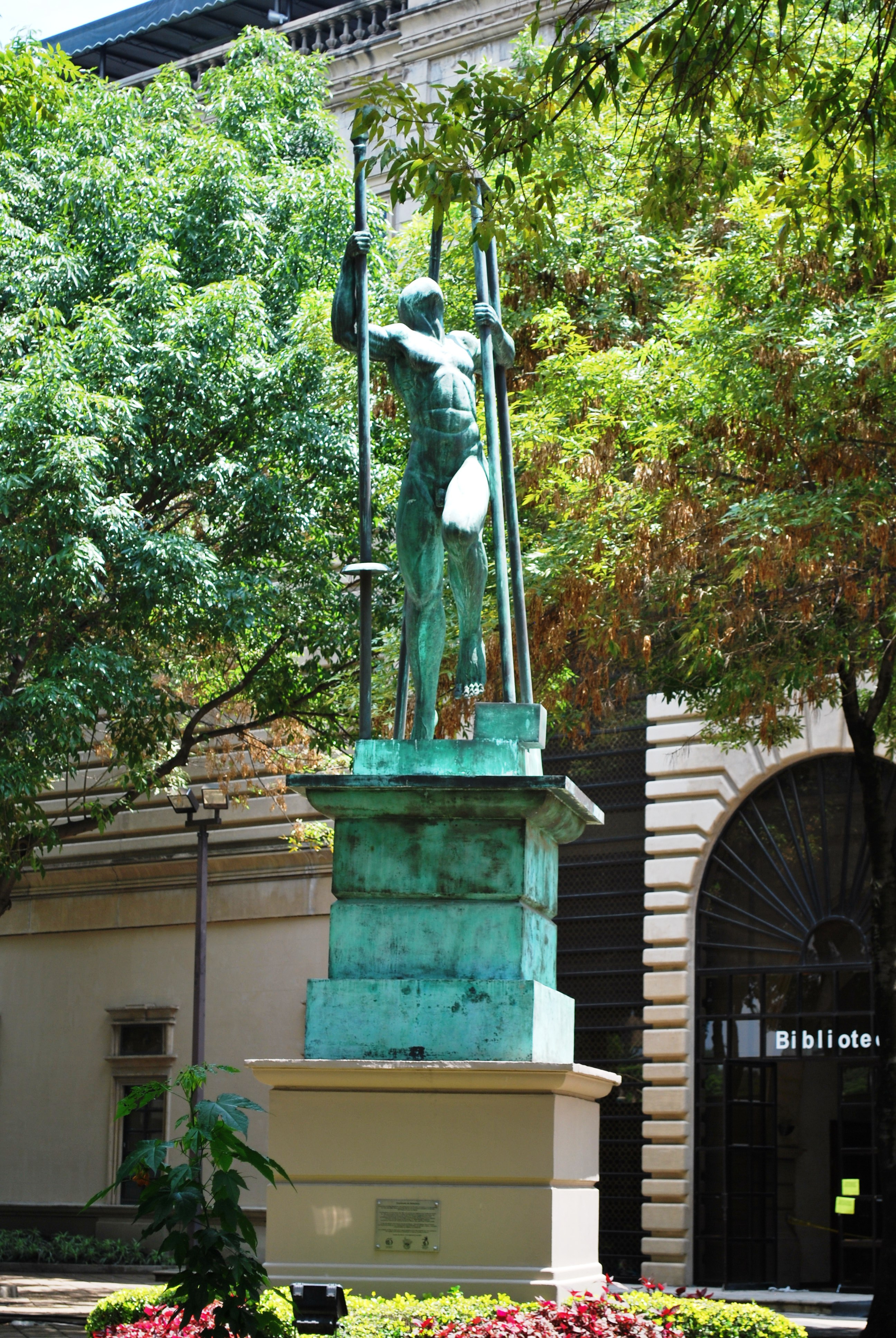 "El Rey de Ajedrez" (The King in Chess) by Miguel Peraza on permanent display at ITESM Campus Ciudad de Mexico in Mexico City